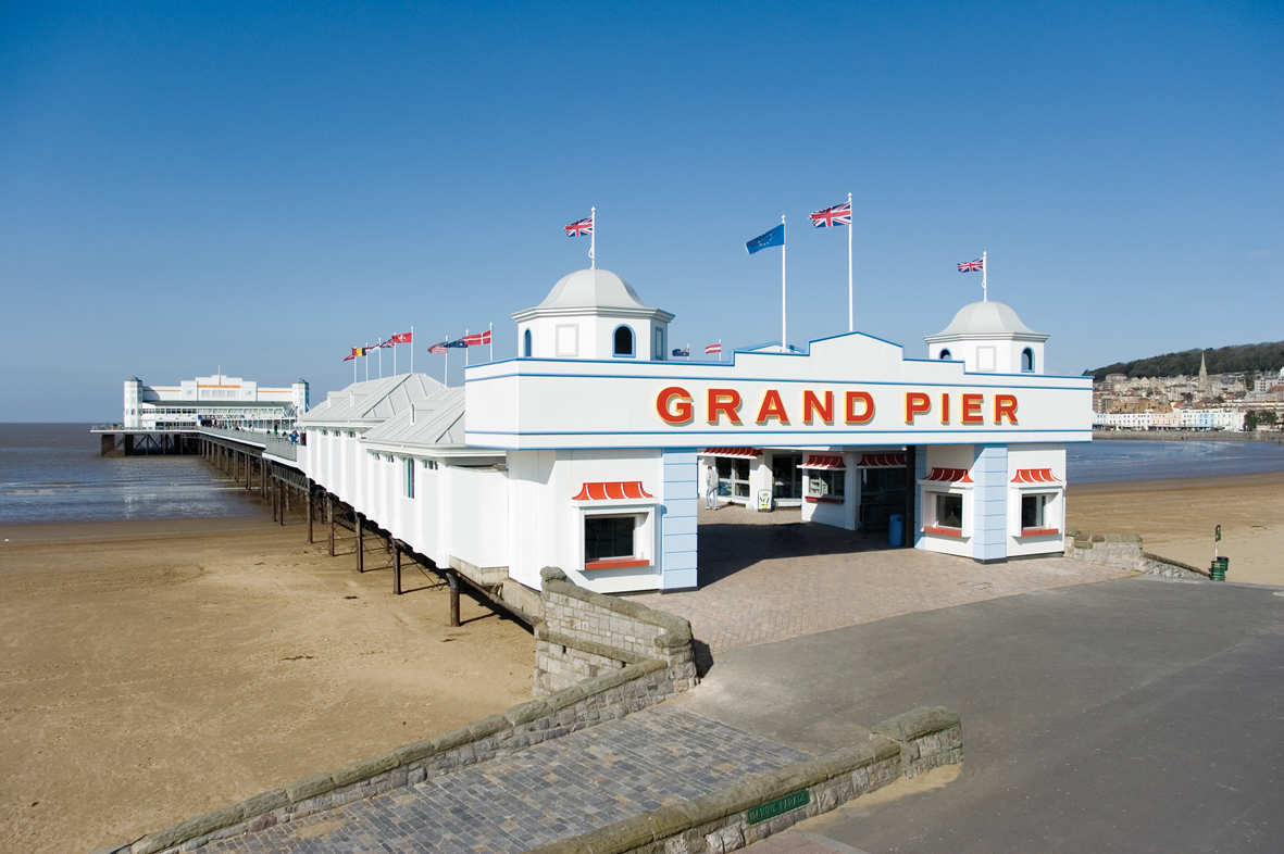 The Grand Pier, before the fire of 2008